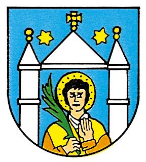 Coat of arms of Sankt Veit an der Glan, Carinthia